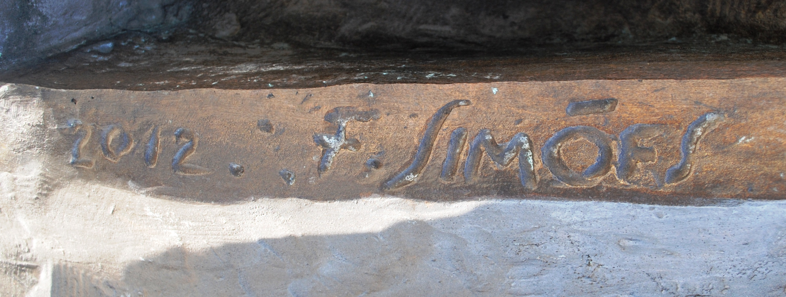 See title and categories.